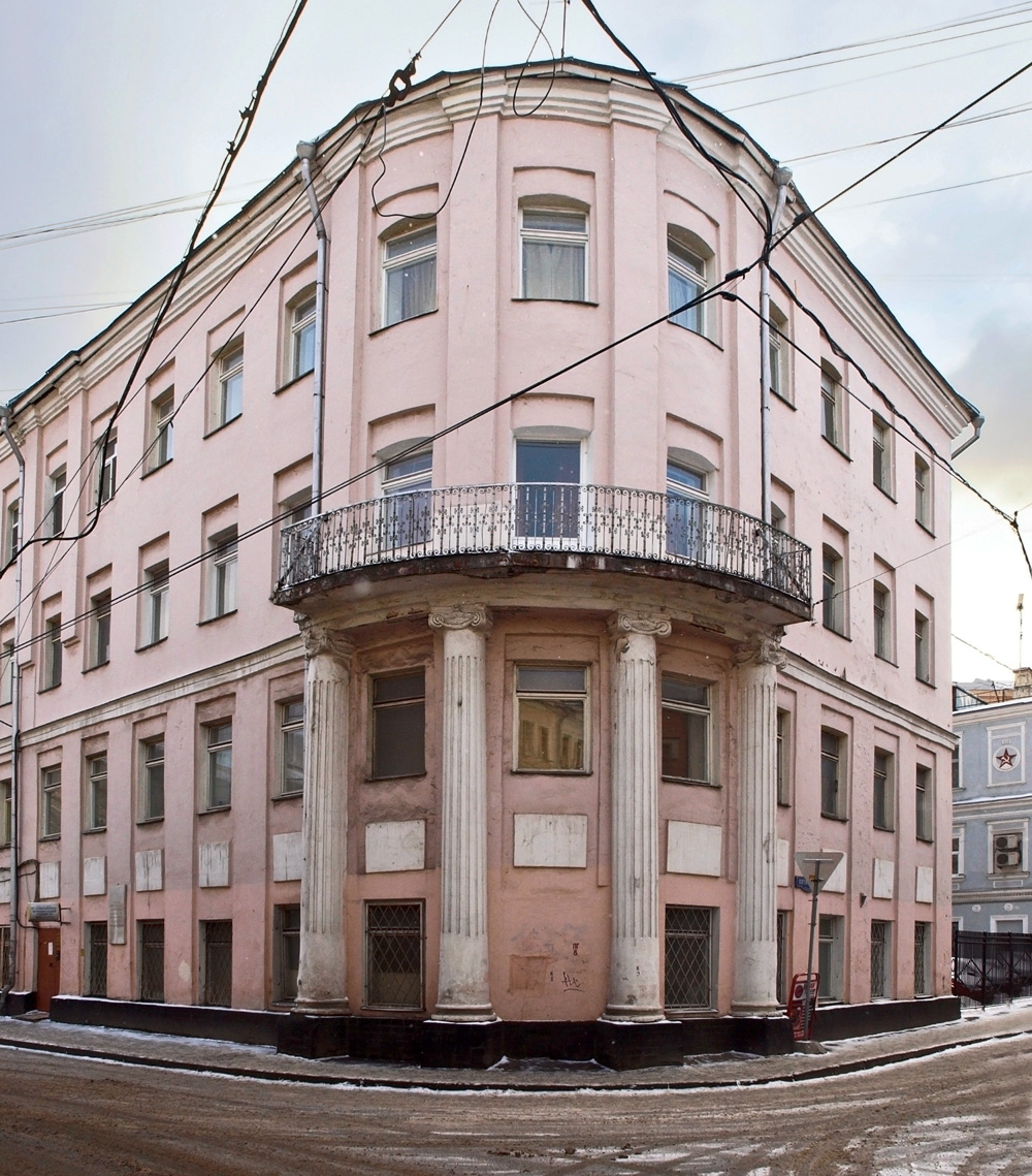 Corner of Pyatnitsky Lane (right) and Bolsoy Ovchinnikovsky Lane, Moscow. It's 18th century (in its original 2-storey form, later built up).